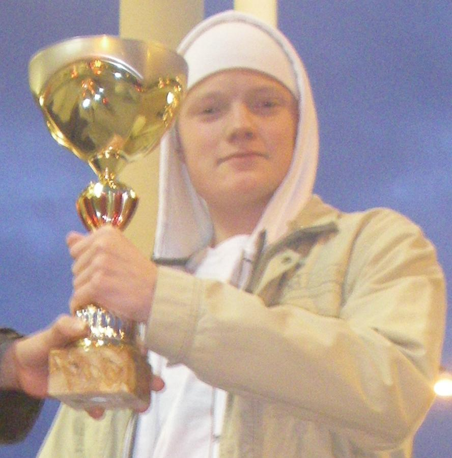 Madis Erit, Estonian Online Poker Champion 2008